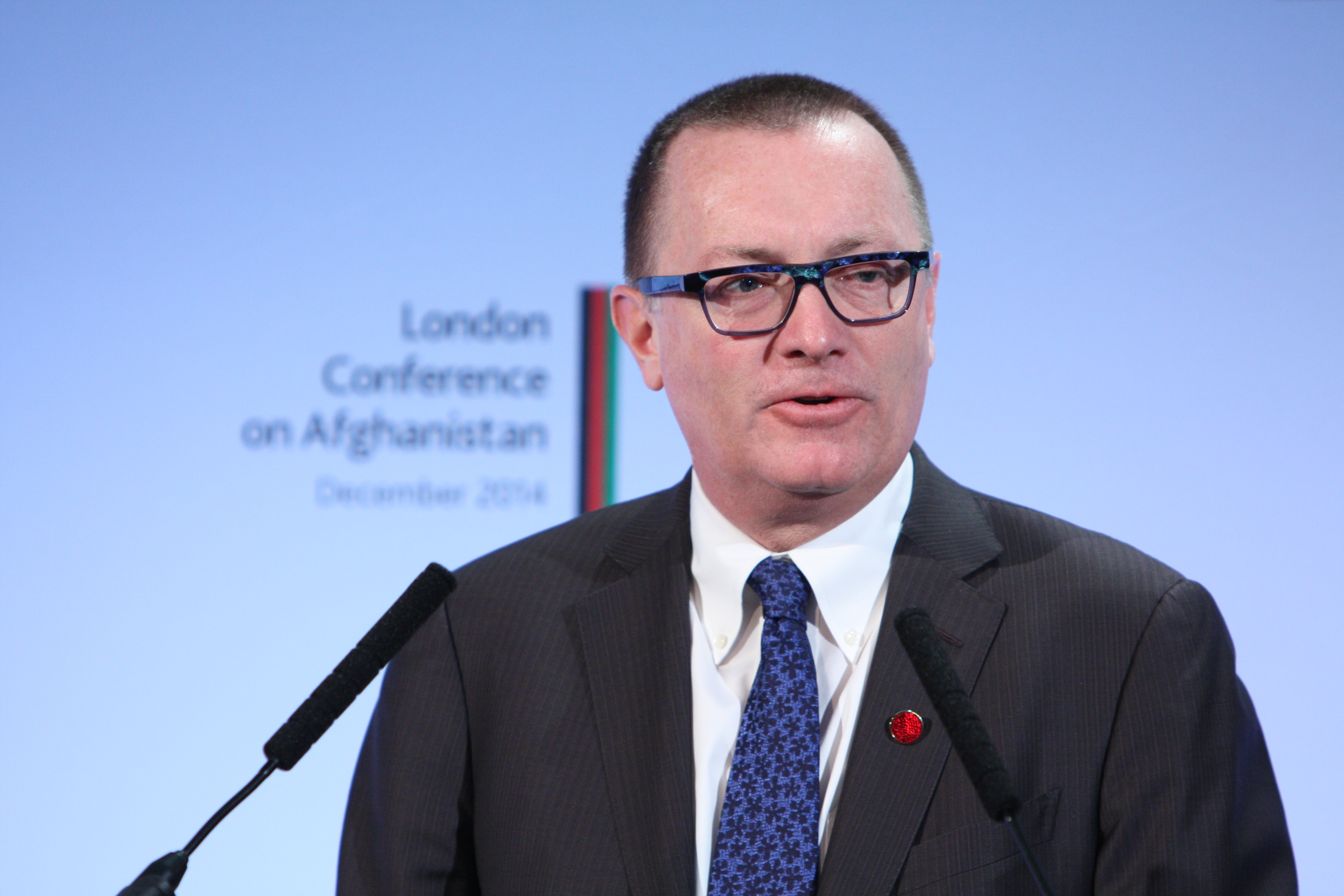 The London Conference on Afghanistan takes place on 4 December 2014, co-hosted by the governments of the UK and Afghanistan. The Conference brings together the Afghan government and international community in support of a secure and peaceful future for Afghanistan. Find out more at: Picture: Patrick Tsui/FCO Free-to-use photo This image is posted under a Creative Commons - Attribution Licence, in accordance with the Open Government Licence. You are free to embed, download or otherwise re-use it, as long as you credit the source as ‘Patrick Tsui/FCO’.